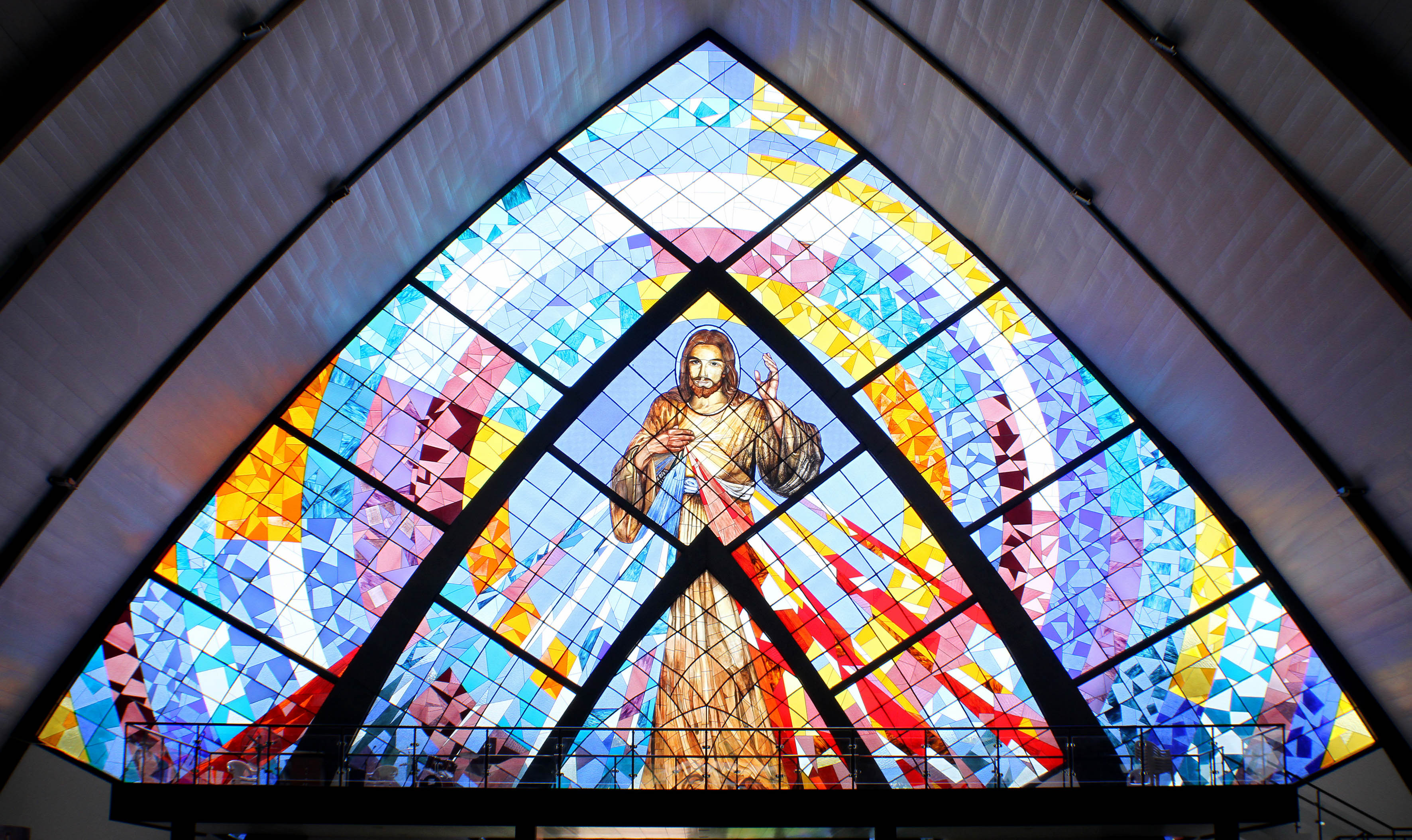 Guayaquil, 29 de may (Andes).-En los predios cercanos al santuario de la Divina Misericordia (foto) el Papa Francisco oficiará una misa campal para 11 mil fieles católicosFoto:César Muñoz/Andes